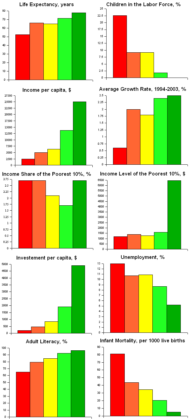 The red bars show the nations with least Economic freedom, the green bars show the nations with the most. Each bar shows the average level in each quintile of the nations in the report.